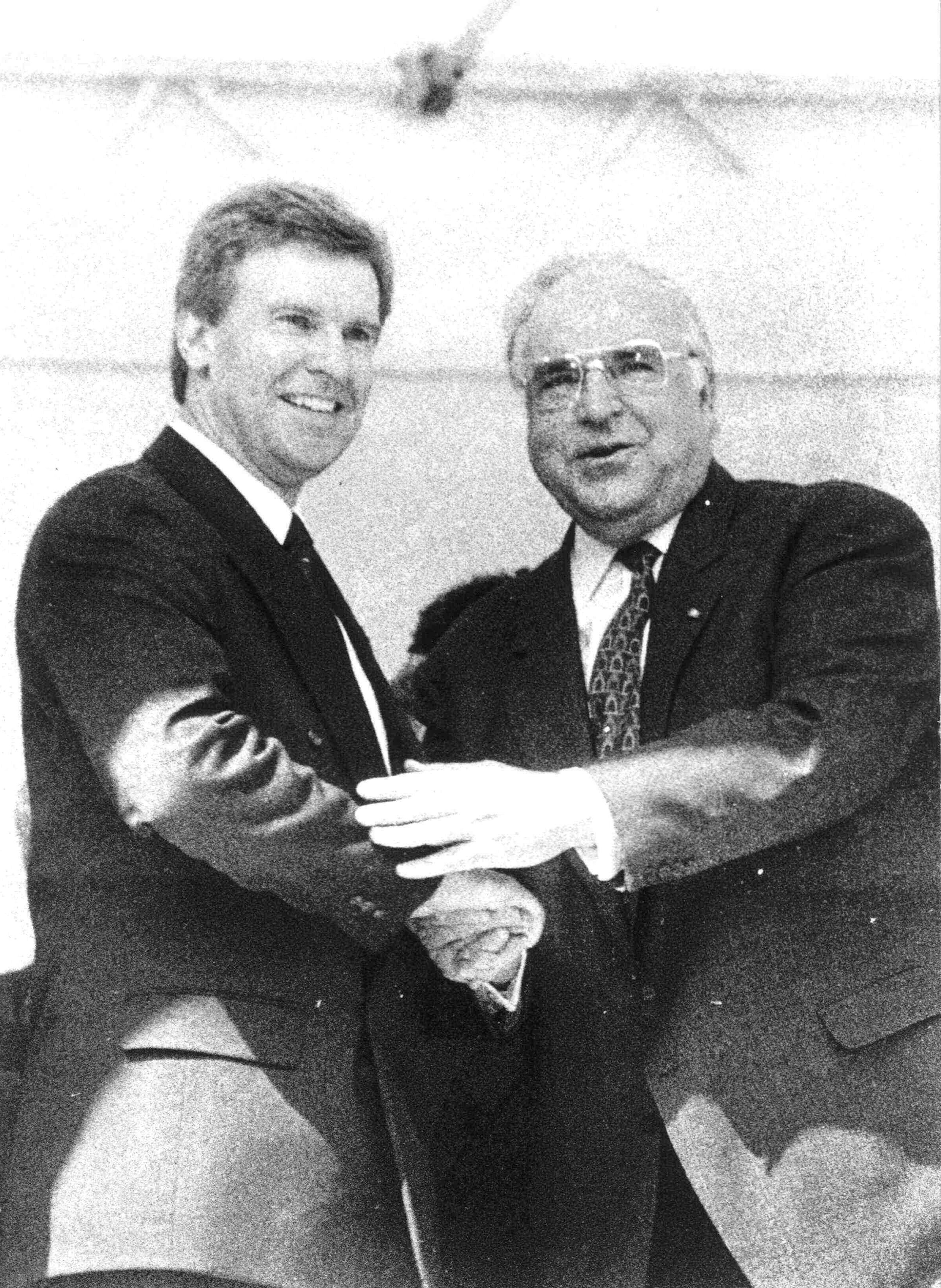 Ulrich Daldrup receives German Chancelor Helmut Kohl in Aachen - 1994